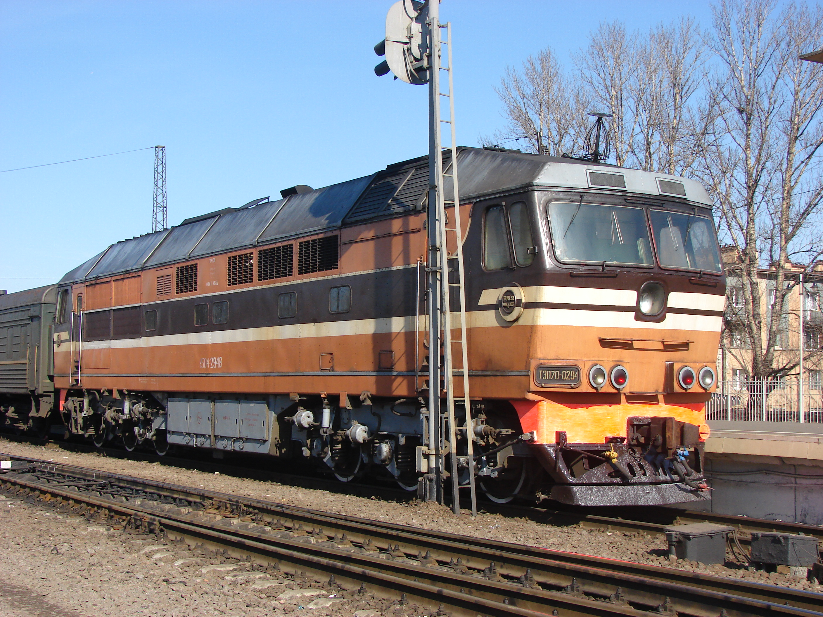 Diesel locomotive TEP70-0294 (Vitebsky railway station in Saint-Petersburg, Russia. Train Pskov-St.-Petersburg)